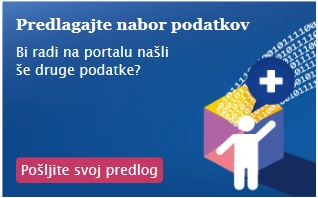 Screenshot from EUODP